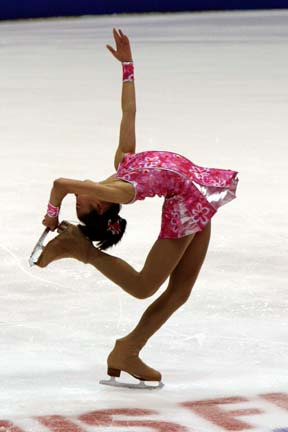 Mirai Nagasu performs a catch foot layback spin at the 2007-2008 Junior Grand Prix event in Lake Placid, New York, United States.